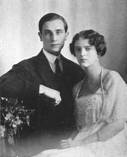 Felix Yusupov, one of the assassins of Grigori Rasputin, and his wife Princess Irina Alexandrovna of Russia.